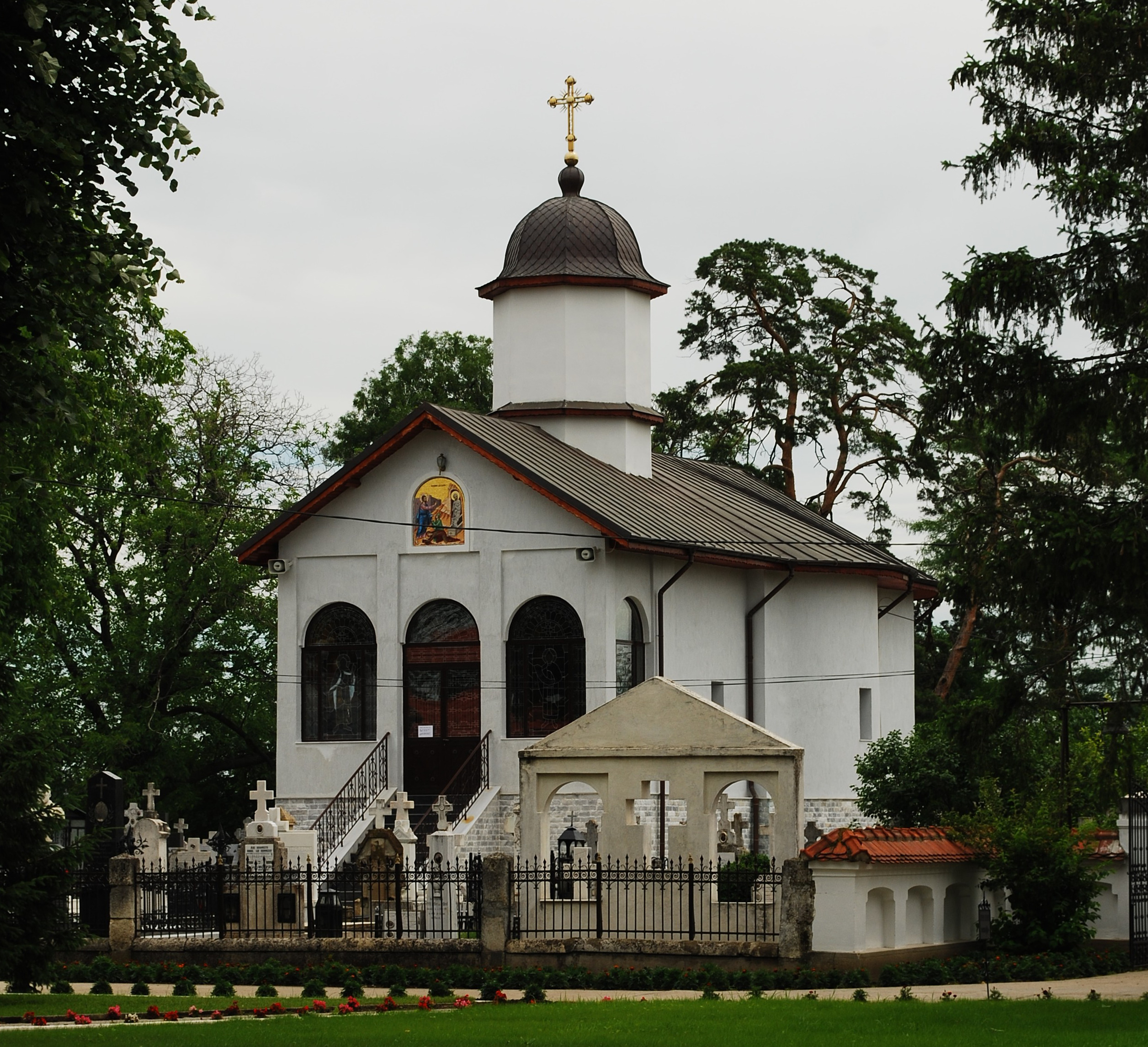 The small church (of the Resurection of Lazarus) in the Ghighiu monastery, Prahova County, RomaniaRomână: Biserica mică (Învierea Sf. Lazăr) de la mănăstirea Ghighiu, județul Prahova, România 02